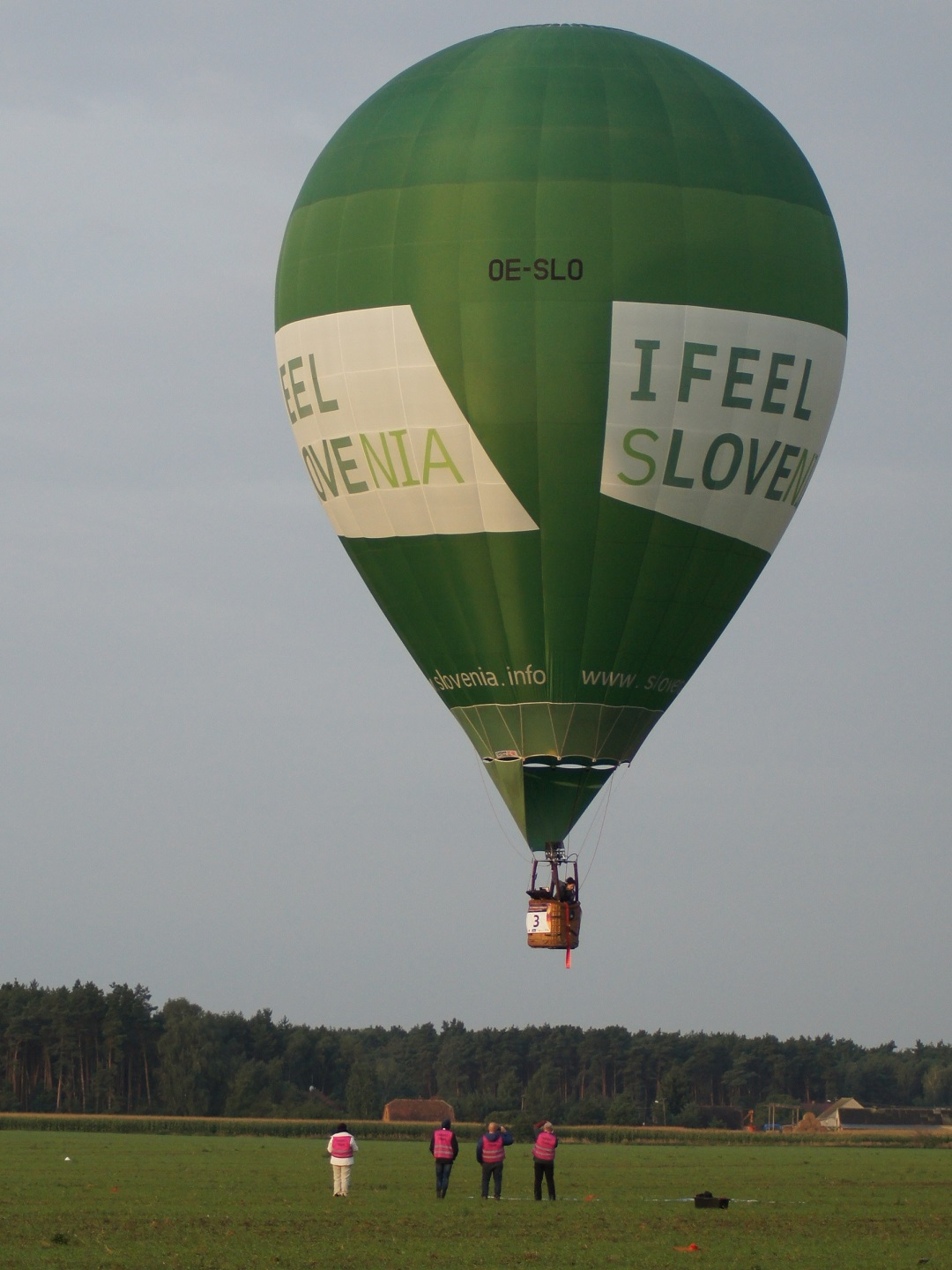 Elisabeth Kindermann -Austria - steering to 1000 points, women's Europeans at Leszno